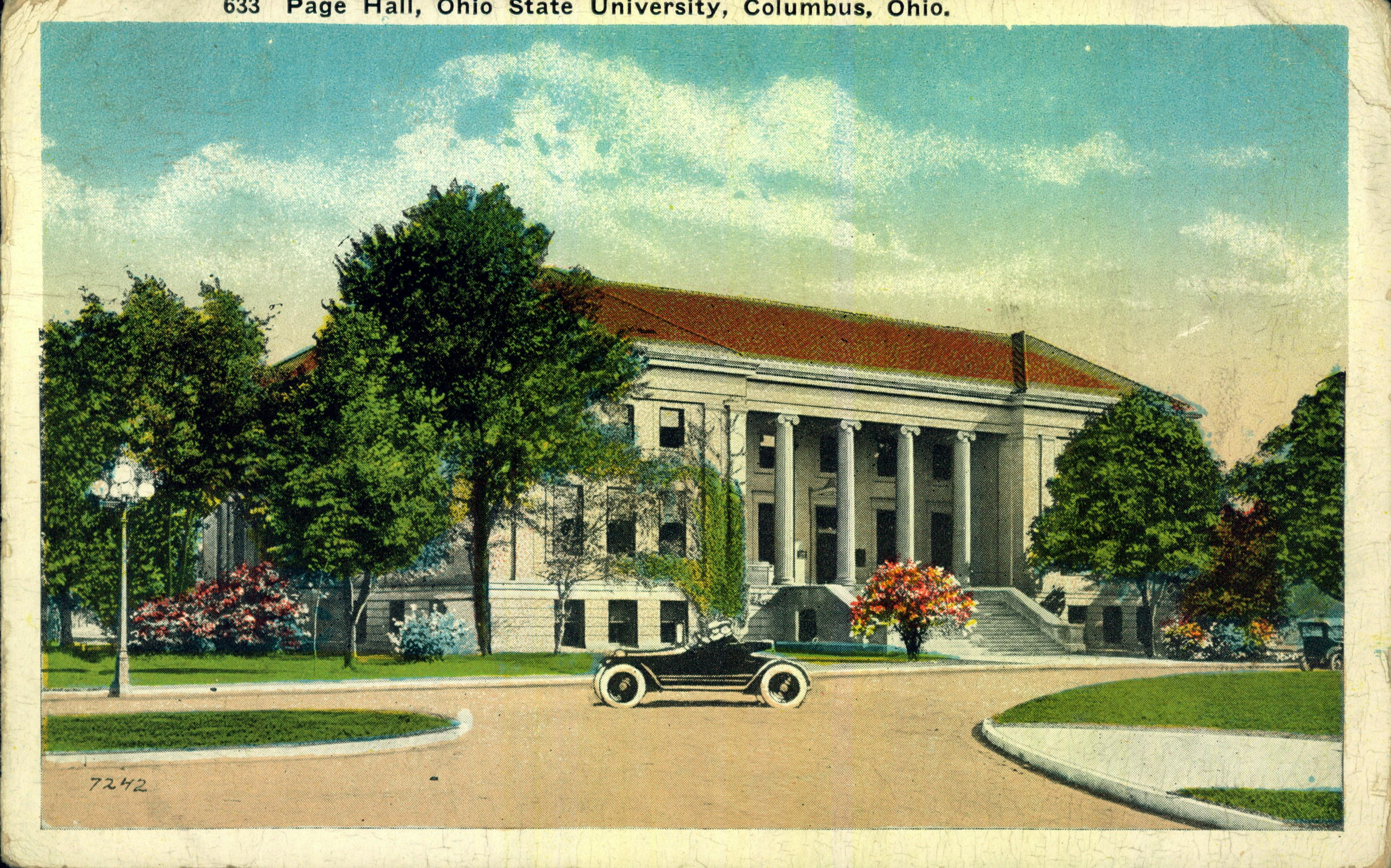 Persistent URL: Subject: Ohio State University; Universities & colleges; Halls; Buildings; Ohio--Columbus; miami digital collections; bowden postcard collection